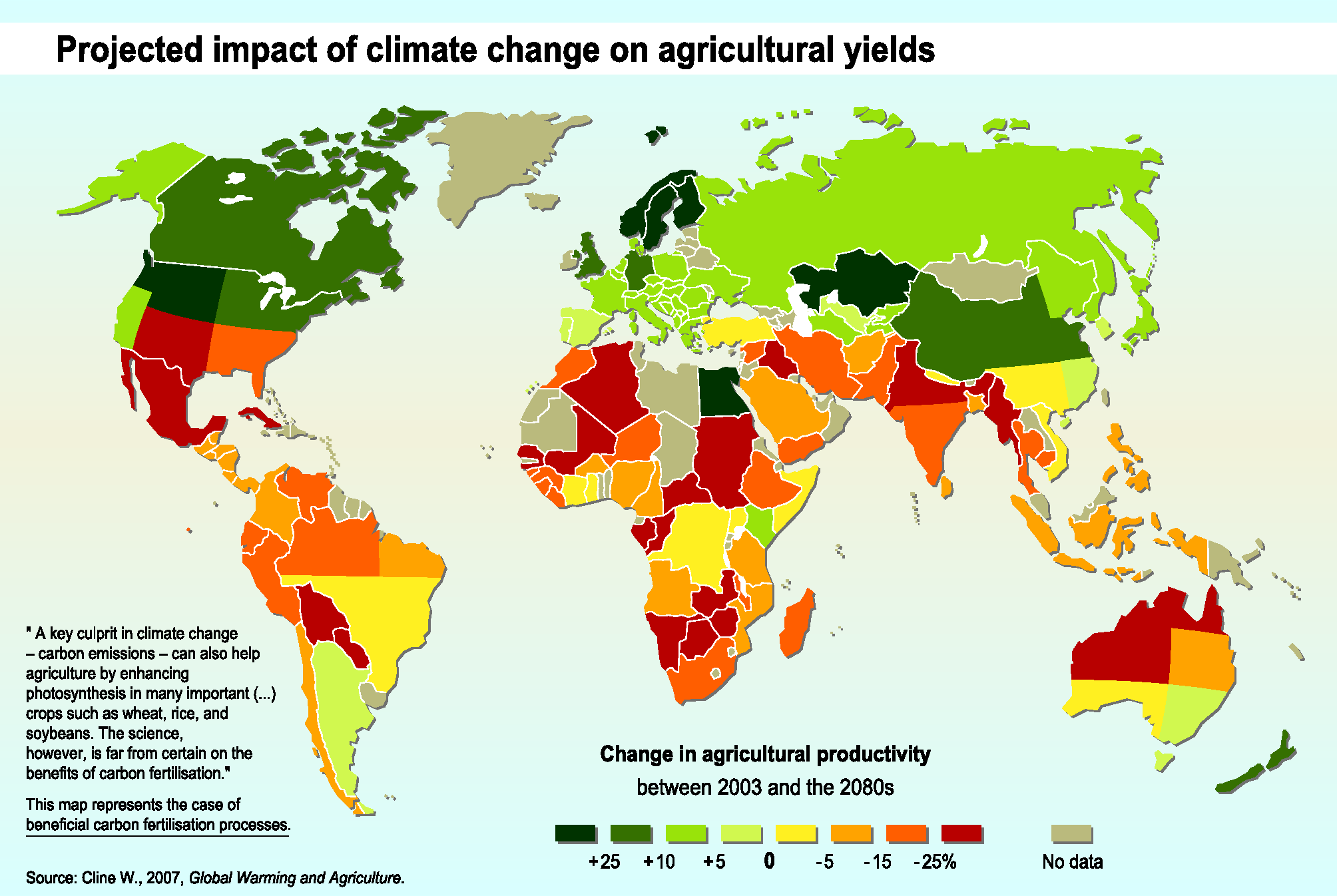 This map shows the projected impact of climate change in the 2080s on agricultural productivity across the world. Impacts are measured as a percentage change in agricultural productivity compared to 2003 levels. It is based on work by Cline (2007) (referred to by the European Environment Agency (EEA), 2011, pp.74-75). Cline (2008) also provides details of the study and can be freely downloaded. According to the EEA (2011, p.74): "Although global production may increase initially (before 2030), global warming is projected to have negative effects in the long run. While production at high latitudes will generally benefit from climate change, in many African countries and Latin America it is projected to be severely compromised [...]." The map represents a "business-as-usual" scenario, i.e., the world adopts no new measures to reduce greenhouse gas emissions (EEA, 2011, p.75). It takes into account the assumed benefits of increases in carbon fertilization (EEA, 2011, p.75). Calculations are based on the average output of six general circulation models (GCMs) of the Earth's climate system (EEA, 2011, p.75). Raw data on which the map is based can be downloaded as an Excel spreadsheet from the source website (EEA, 2010). References: Cline, W.R., (2007): Global Warming and Agriculture: Impact Estimates by Country. Center for Global Development, Washington DC ,USA; Cline, W.R., (March 2008): Global Warming and Agriculture. Finance and Development, vol 45, no. 1. International Monetary Fund, Washington DC, USA; EEA, (2011): The European environment — state and outlook 2010: assessment of global megatrends. European Environment Agency, Copenhagen, Denmark.